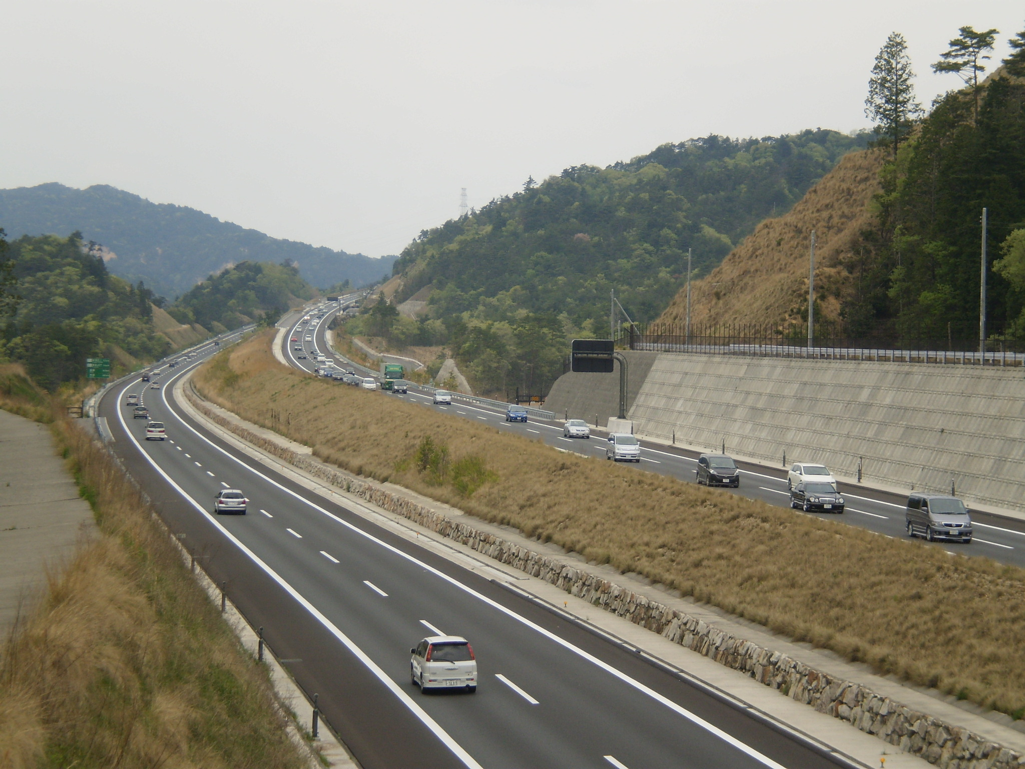 Shin-Meishin Expressway (From a Kinose over bridge) I took this image at Kinose Shigaraki-cho Koka City Shiga Pref., Japan.